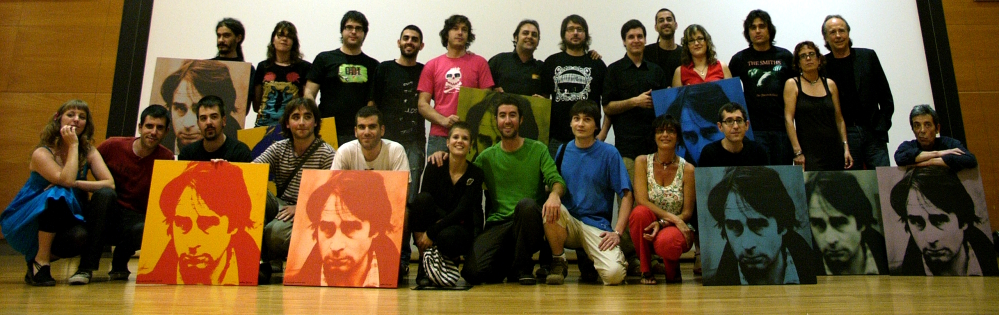 roll call of the Premis Ovidi 2008 in València, including (from left to right) Orxata, Bakanal, Alabajos, Serrat and Palmero